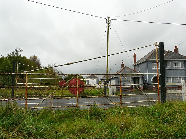 Redundant level crossing, Pontyates. For a location shot, see 1010634. This is on the disused Burry Port and Gwendraeth Valley Railway, which ran from near Llanelli to Cwm Mawr. Constructed to transport coal from local mines, it also carried passengers until 1953, and there was a station at Pontyates. The line closed in 1996 when the mines ceased operating. However, a group of enthusiasts has already started restoration work on part of the railway, and hope to be operating trains again in the near future .